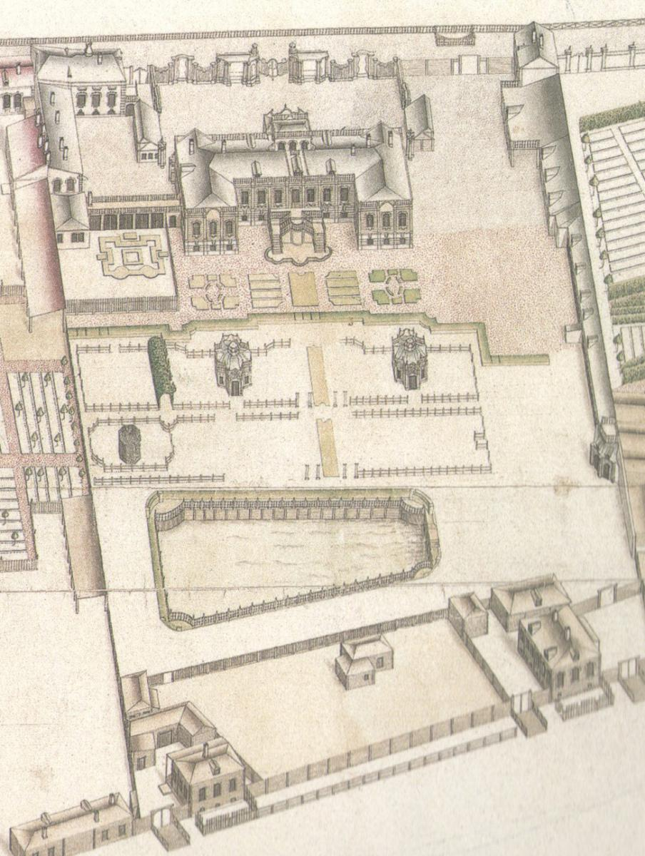 Mansion of Musin-Pushkin on Plan of Sent-Iler